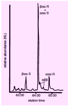 Cholestane isomer elution time